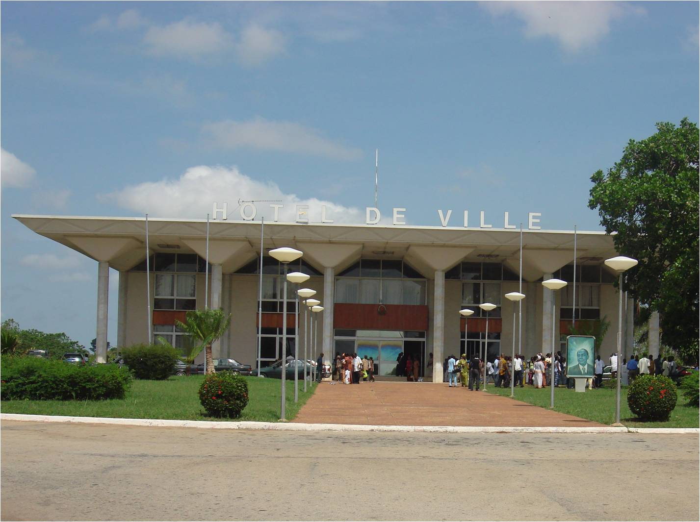 Hotel de Ville building, Yamoussoukro, Côte d’Ivoire.